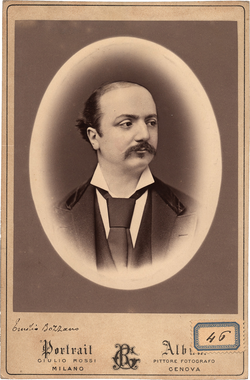 Portrait of Emilio Bozzano, composer (1840-1918). Photo by Giulio Rossi, Milano, before 1918.